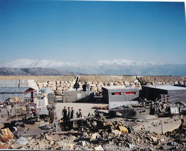 מוצב ריחן 1995